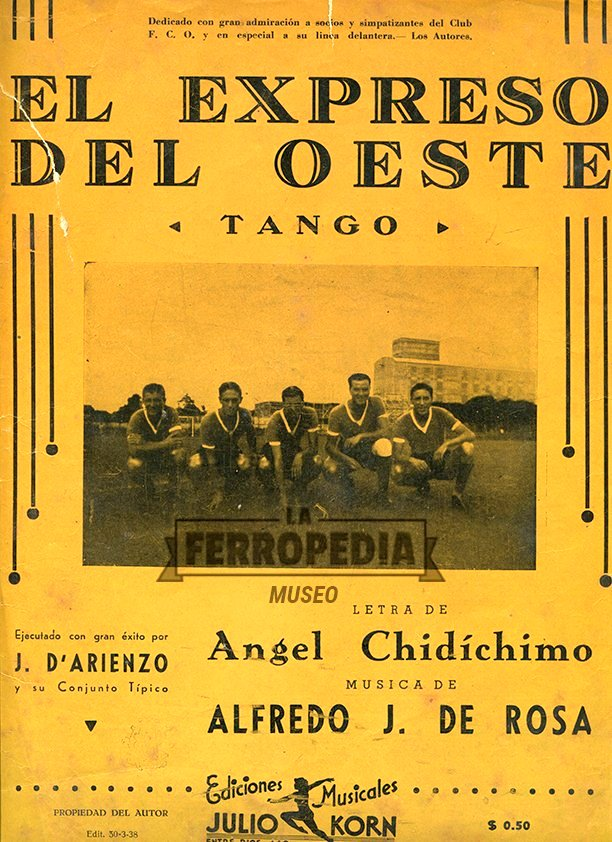 Score of the Tango El Expreso del Oeste, recorded by Juan D’Arienzo in 1937 and dedicated to the unstoppable front of the Ferro Carril Oeste Club, called La Pandilla.